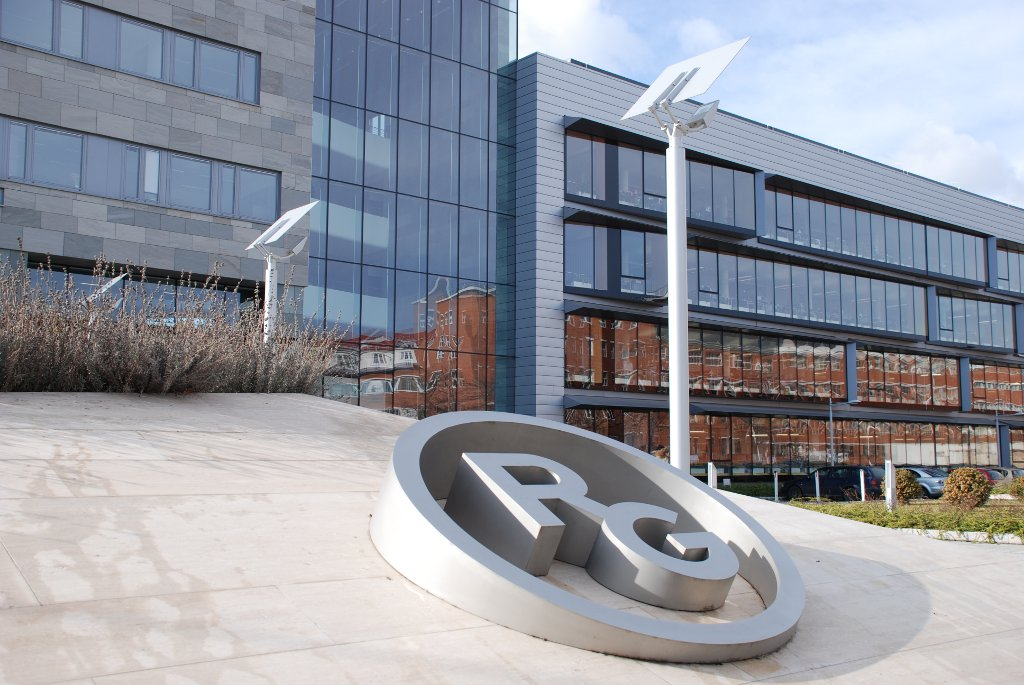 Gedeon Richter Plant in Hungary